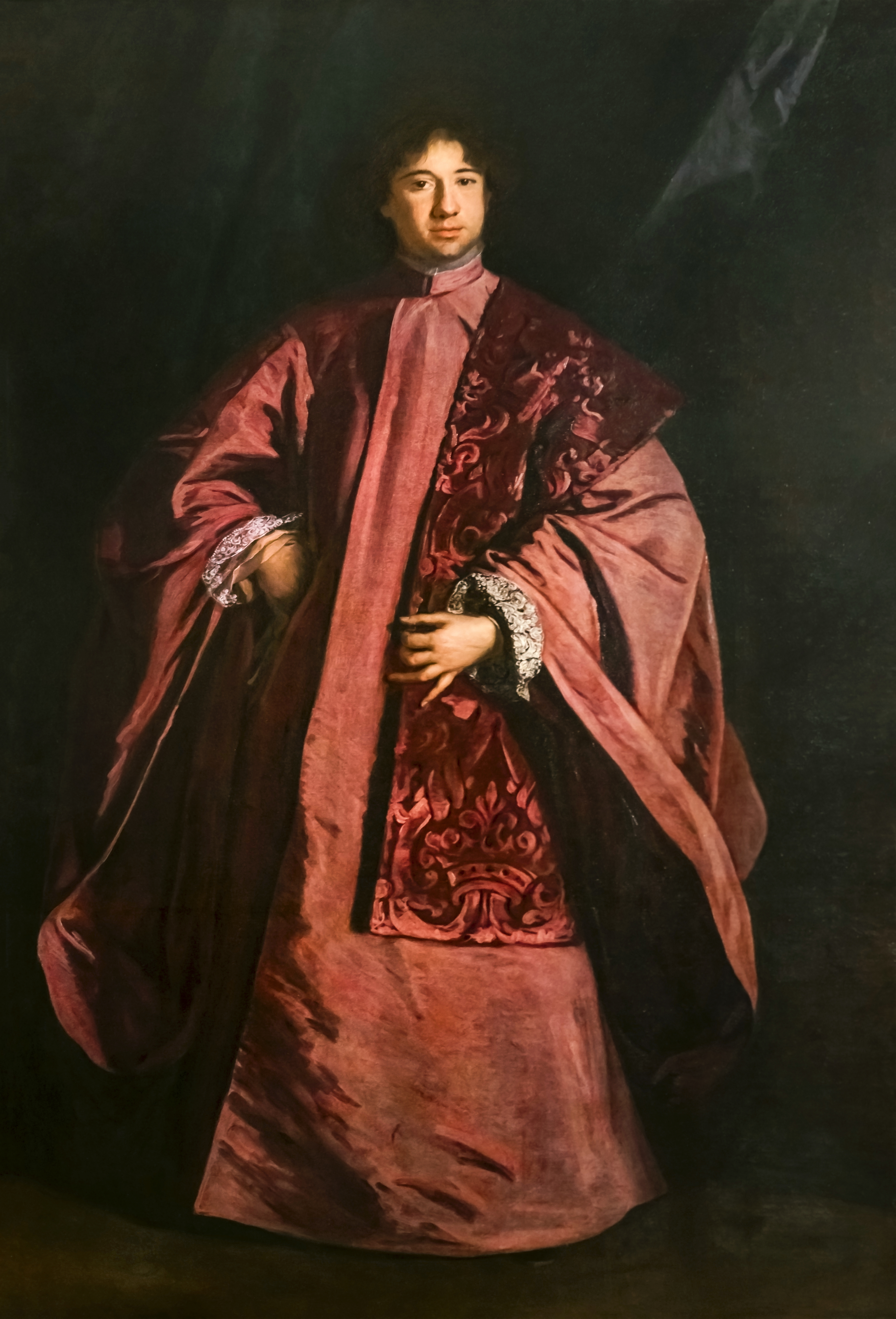 Giovanni Querini Stampalia's Portrait, in the habit of Procurator of St Mark